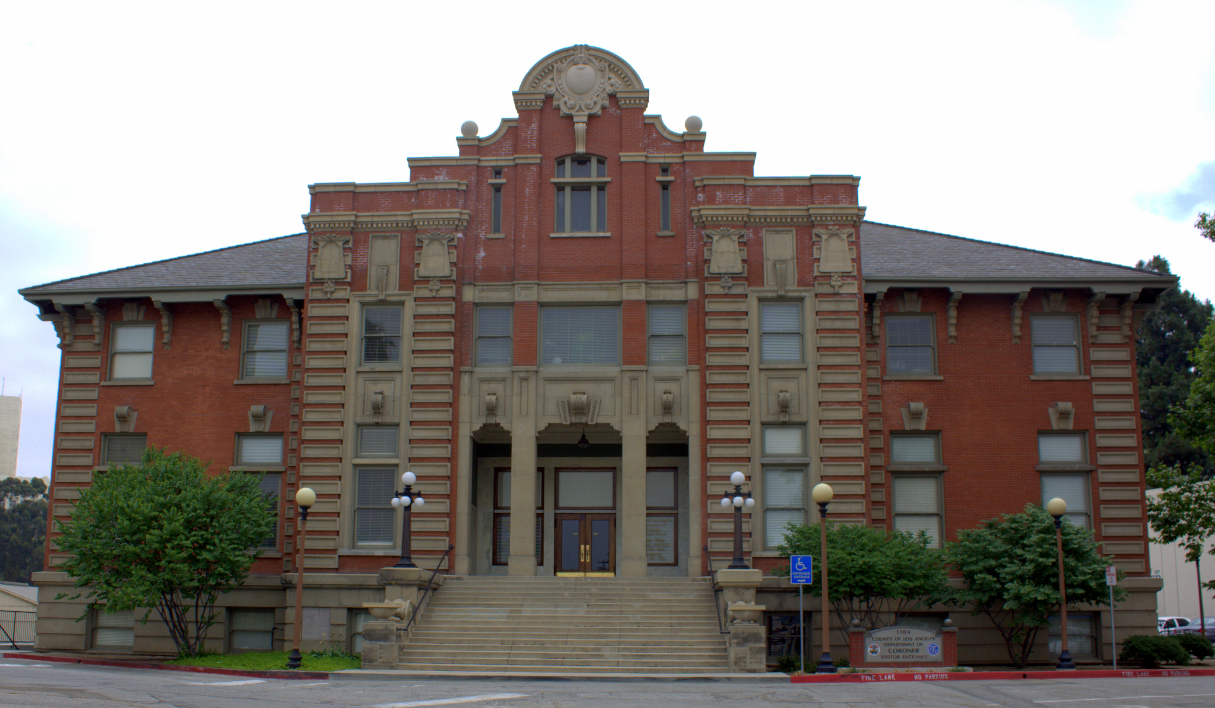 County Coroner's building, ca 1912, Austrian/German Secessionist design with a dome.